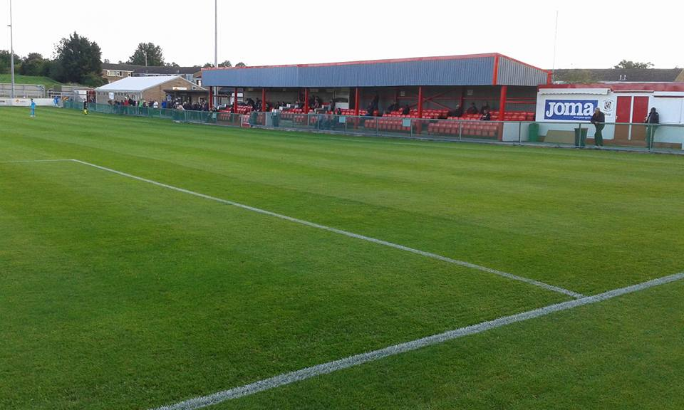 The Brackley Town F.C. main stand